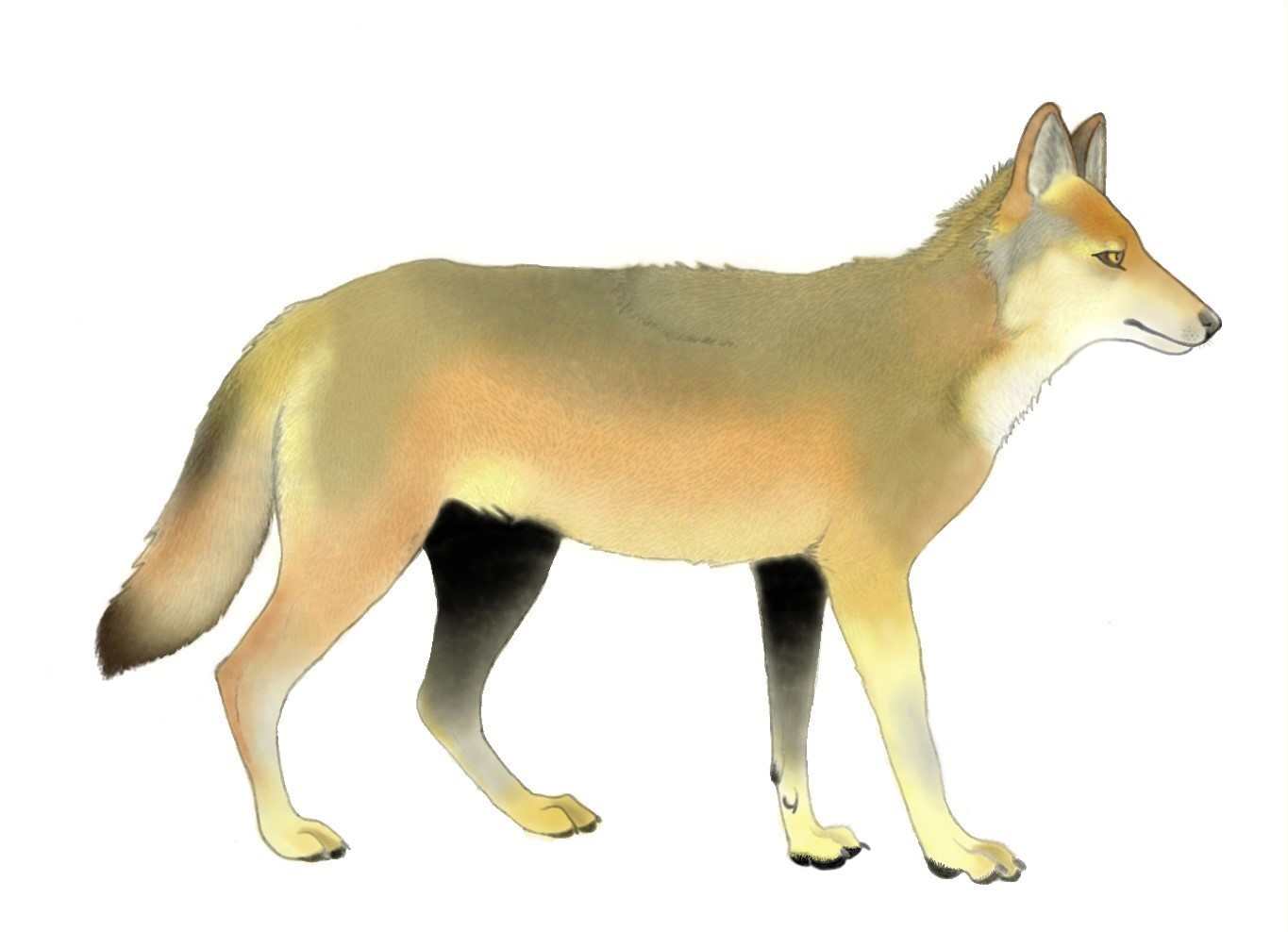 Illustration of Canis othmani. Colours based on Canis anthus anthus